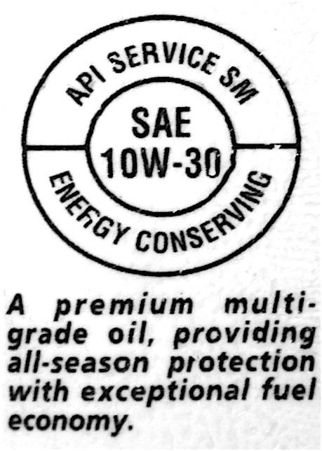 Energy conserving label